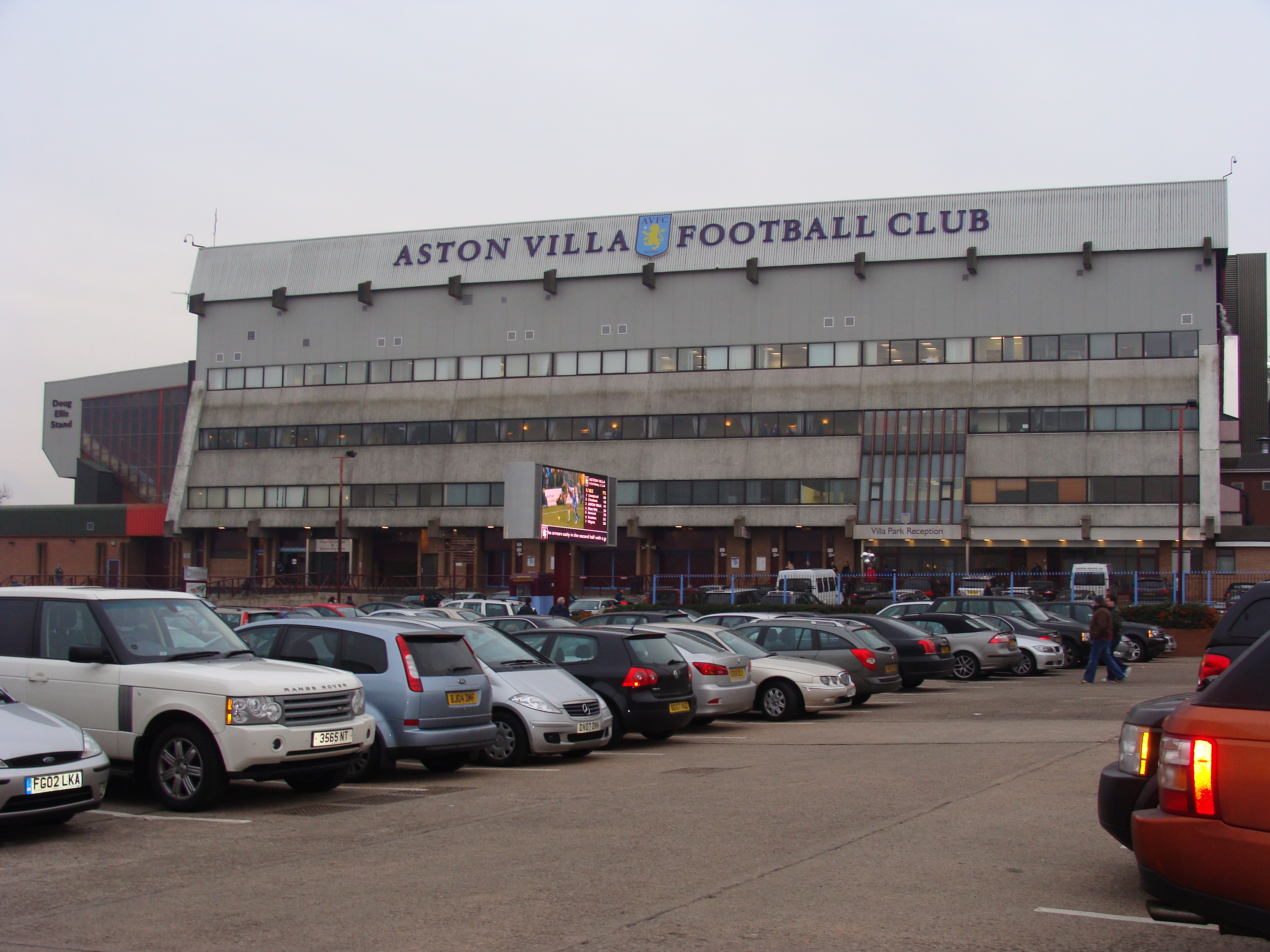 The facade of the North Stand of Villa Park. The Doug Ellis Stand can be seen to the left of the North Stand.